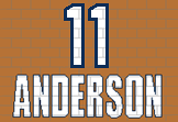 Recreation of how it looks at Comerica.